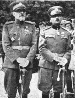 Lev Rupnik (Leon) and general Opačič in 1940